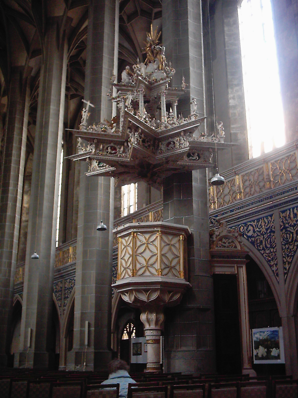 Pulpit of Market Church in Halle